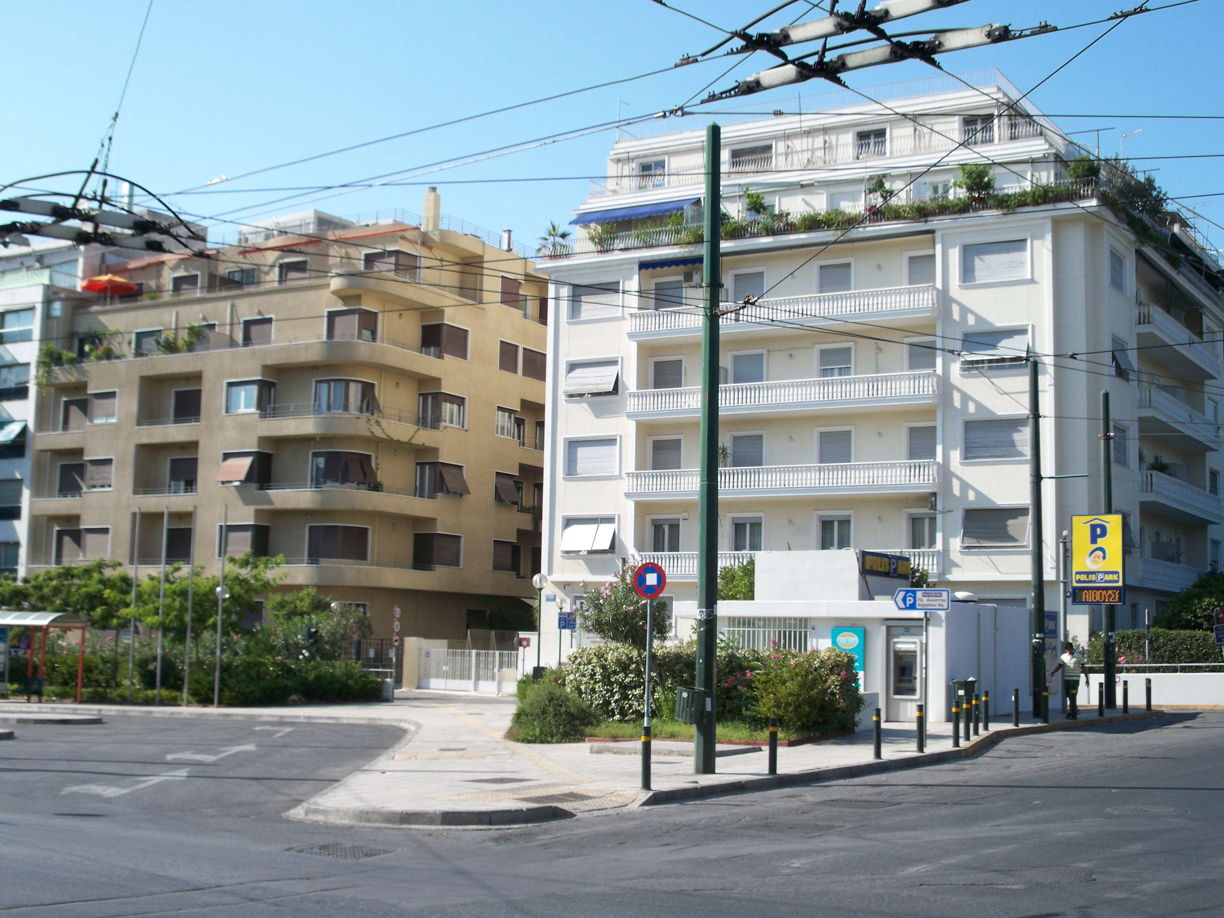 Aigyptou Square, Athens. Two apartment buildings are shown; Savvidis's apartment building (left) designed in 1934 by architect Nikolaos Nikolaidis (1891–1967) in the then fashionable "modern," "rationalist," or "cubist" style; and an apartment building (right) built in the 1950s, possibly designed by architect Emmanouil Vourekas according to "classicizing modernism," or "simplified classicism," as it is referred to in Greek bibliography, and which was popular for many apartment buildings between 1950–1960.